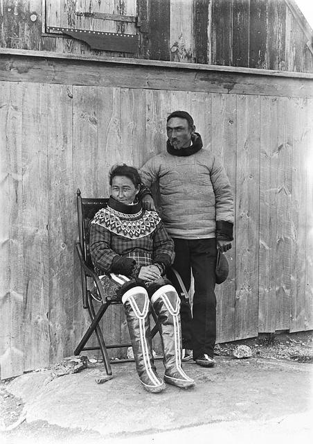 Henrik Lund, author of the national anthem of Greenland, and his wife Malene